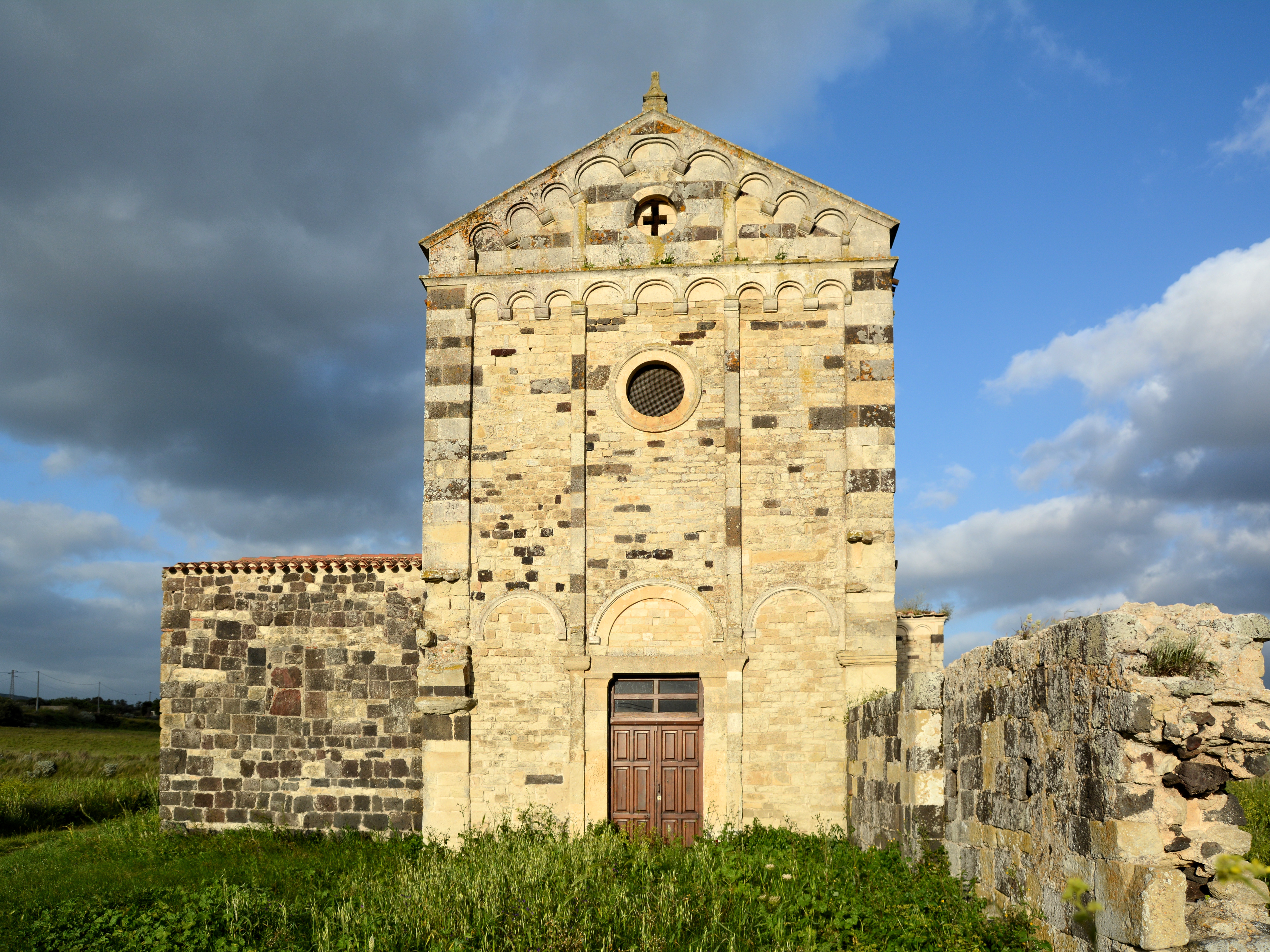 The facade of the romanic Church of San Michele di Salvenero il Ploaghe (SS)